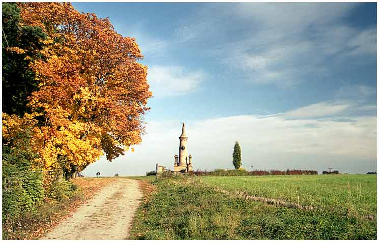 Memorial to Battery of the Death at Chlum conmemorates one of heaviest fights during Battle of Battle of Königgrätz (July 3, 1866).